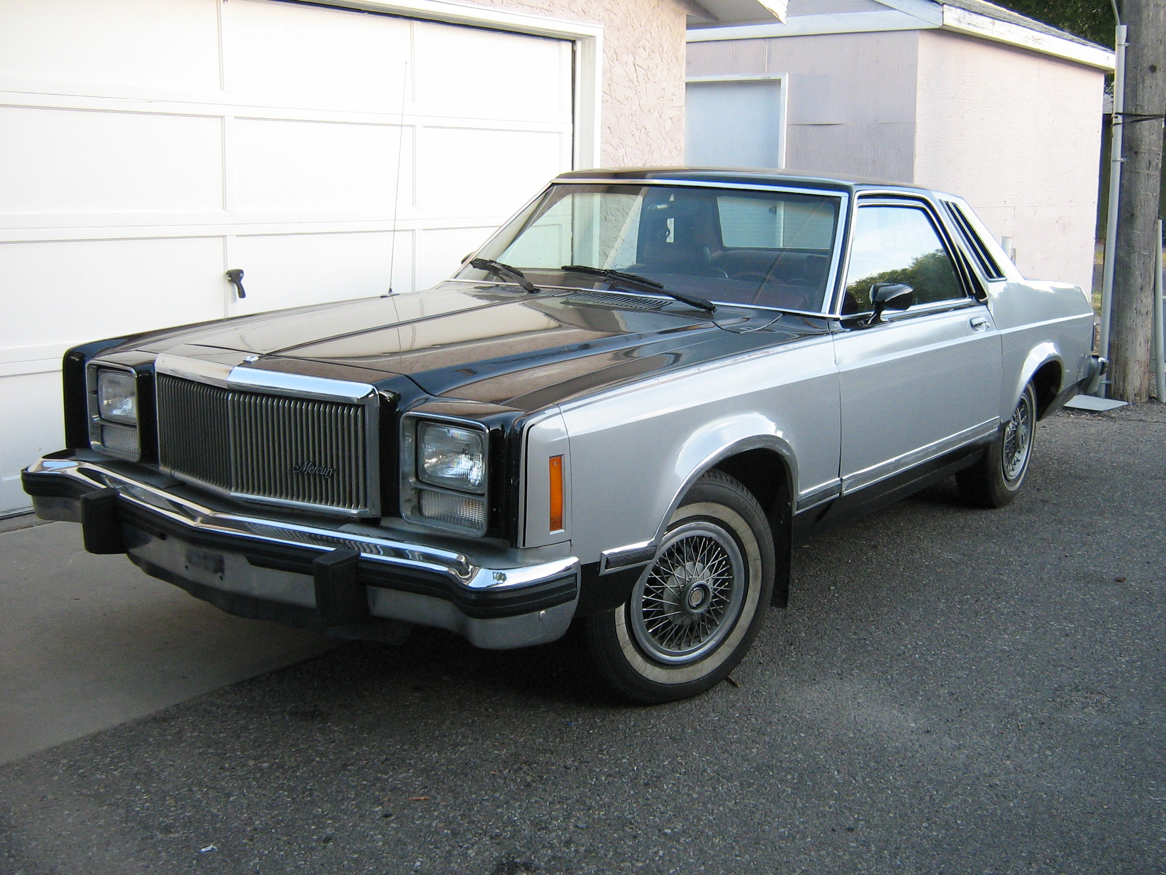 Mercury Monarch 2 door sedan. Original caption: "Spotted this for sale. Only asking $500obo ... might give them a call as it seems to be in very good shape. "